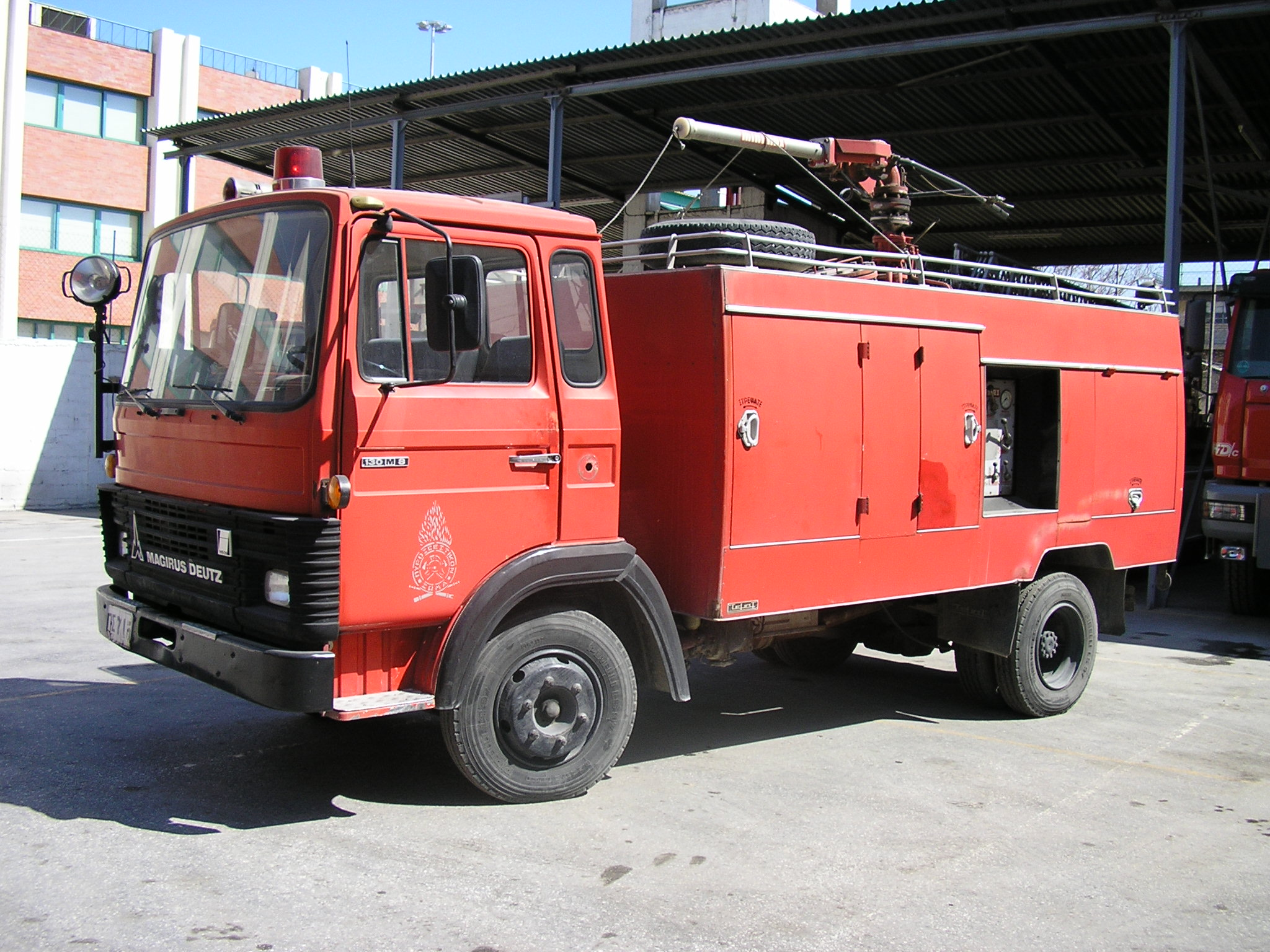 Magirus-Deutz 130M8FL. Vehicle of the Fire Service of Greece.